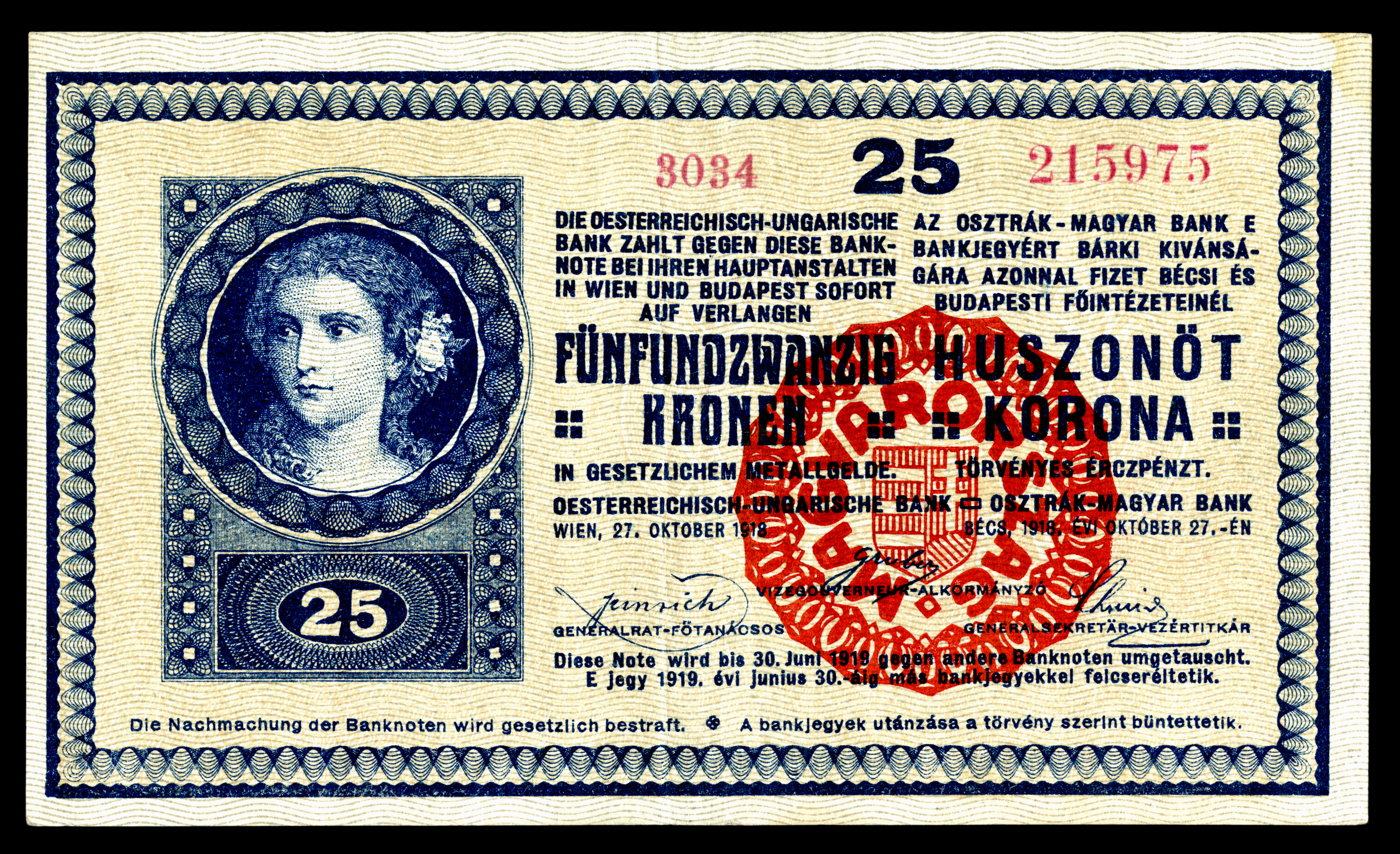 Kingdom of Hungary, 25 korona, 1920 Provisional issue with overstamp (using a 1918 Austro-Hungarian note). The 1920 provisional issue of Hungarian banknotes used an earlier Austro-Hungarian Bank issue. The red circular overstamp on the front side served as validation of legal tender status in the Kingdom of Hungary.